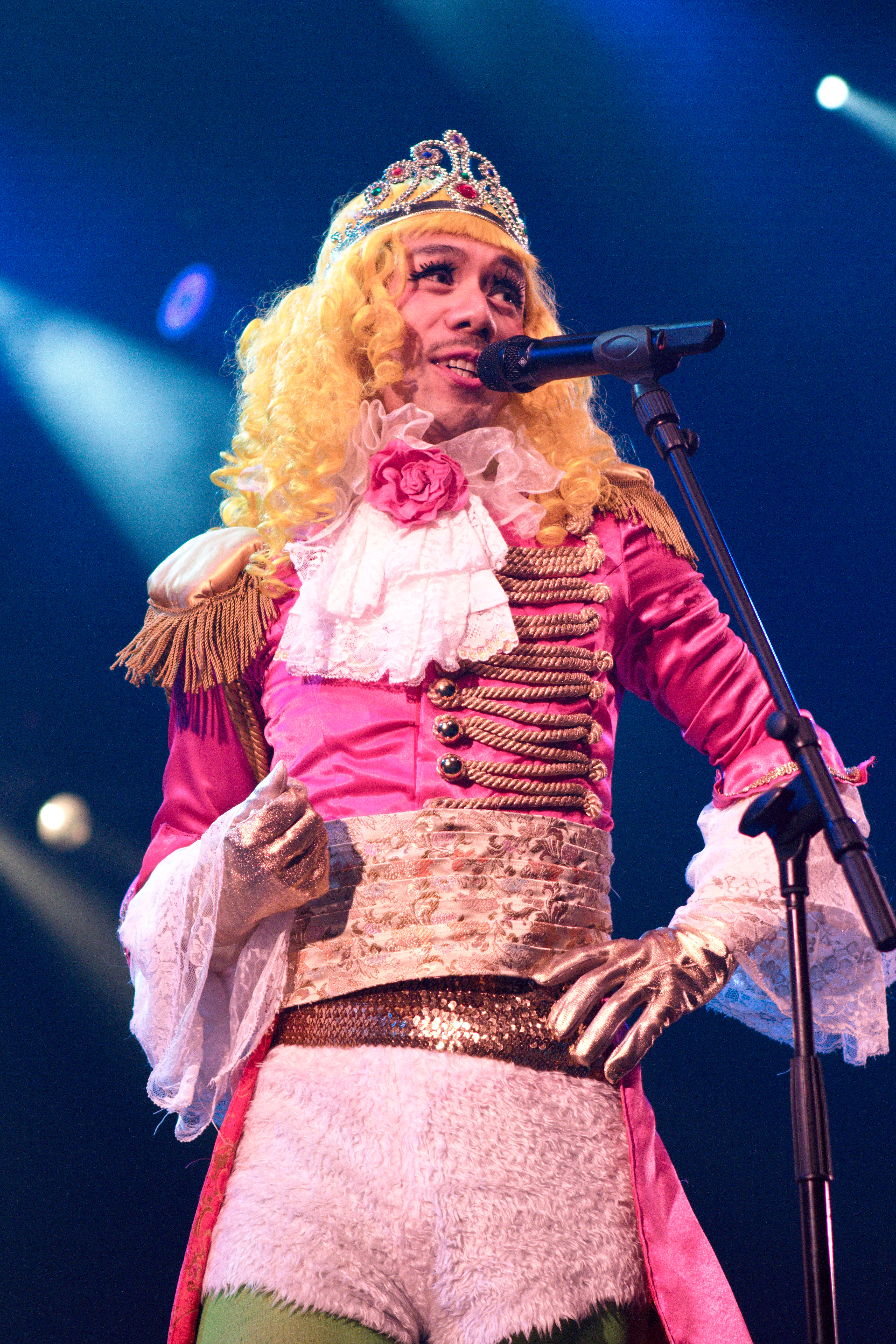 Les Romanesques live at Japan Expo 2011 (Paris, France).